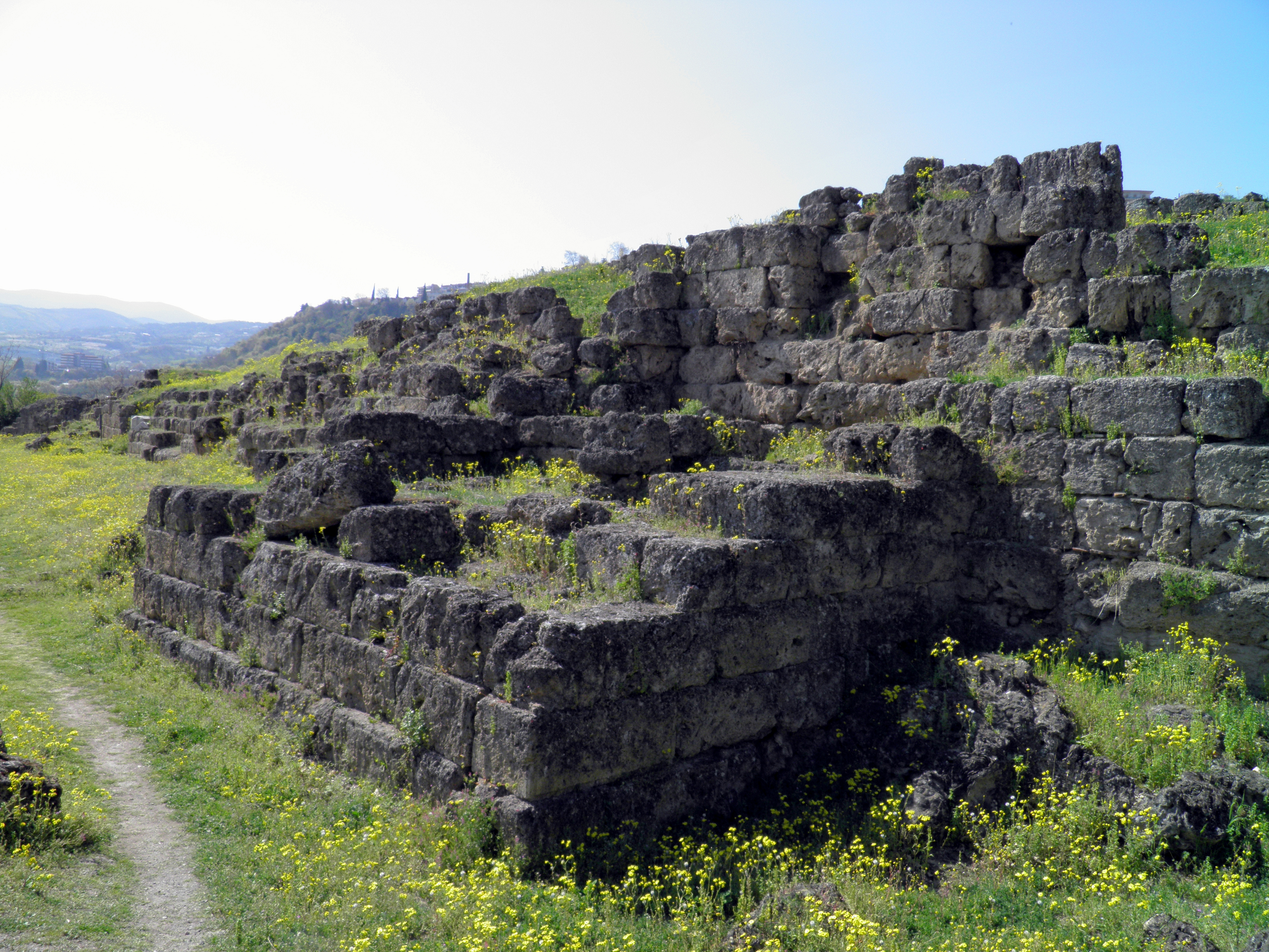 Fortification wall, Ancient Edessa